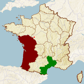 France in the 8th century. Aquitaine and Septimania marked in brown and green respectively.